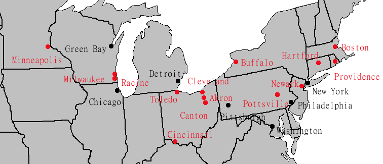 Cities with NFL teams in the 1920s and 1930s. Black text indicates that the team remains in the city. Data from Pro Football Reference. Traveling teams and teams that played less than 10 NFL games are not included.